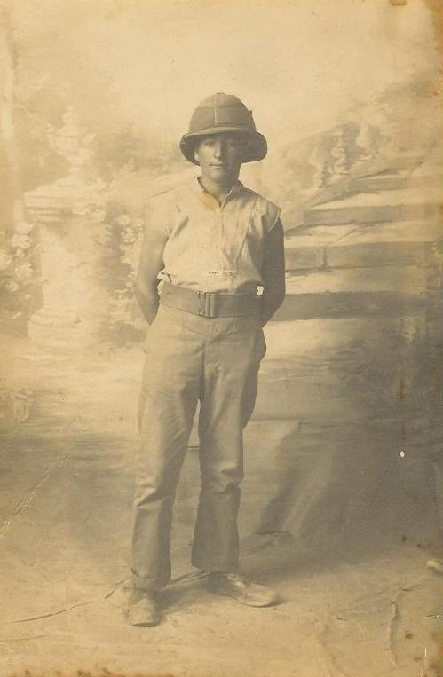 Fred. W. Keays ANZAC 1915 - 1917 Egypt, Galipolli, France